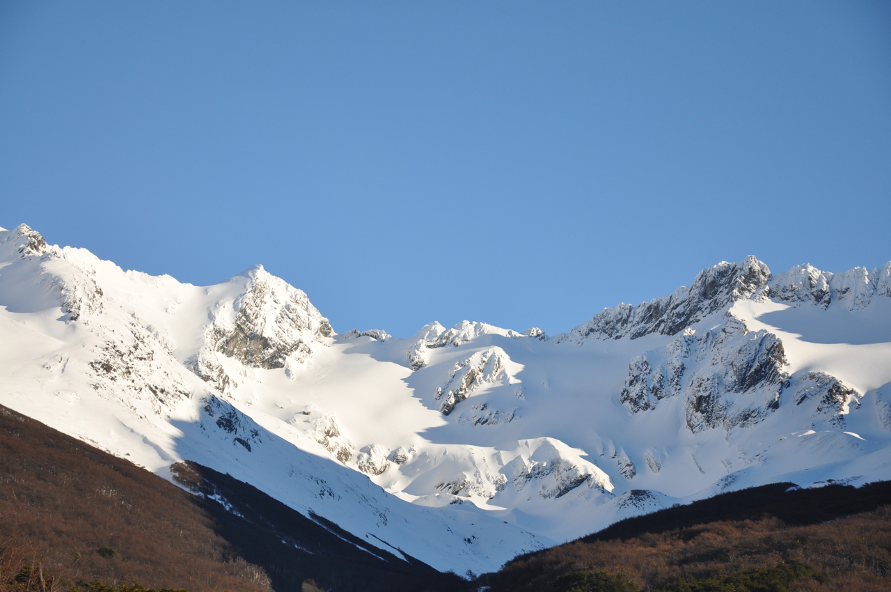 Cerro Martial (Ushuaia)